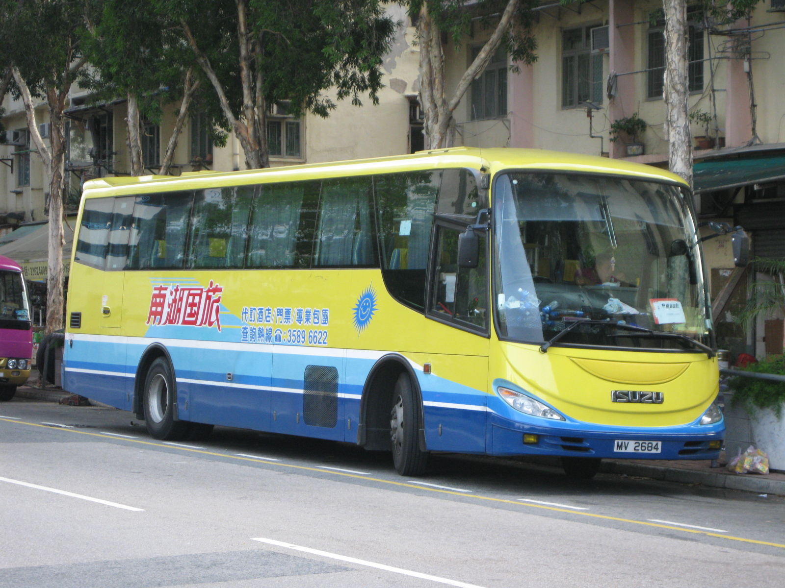 Nanhu Travel Bus in Hunghom HK